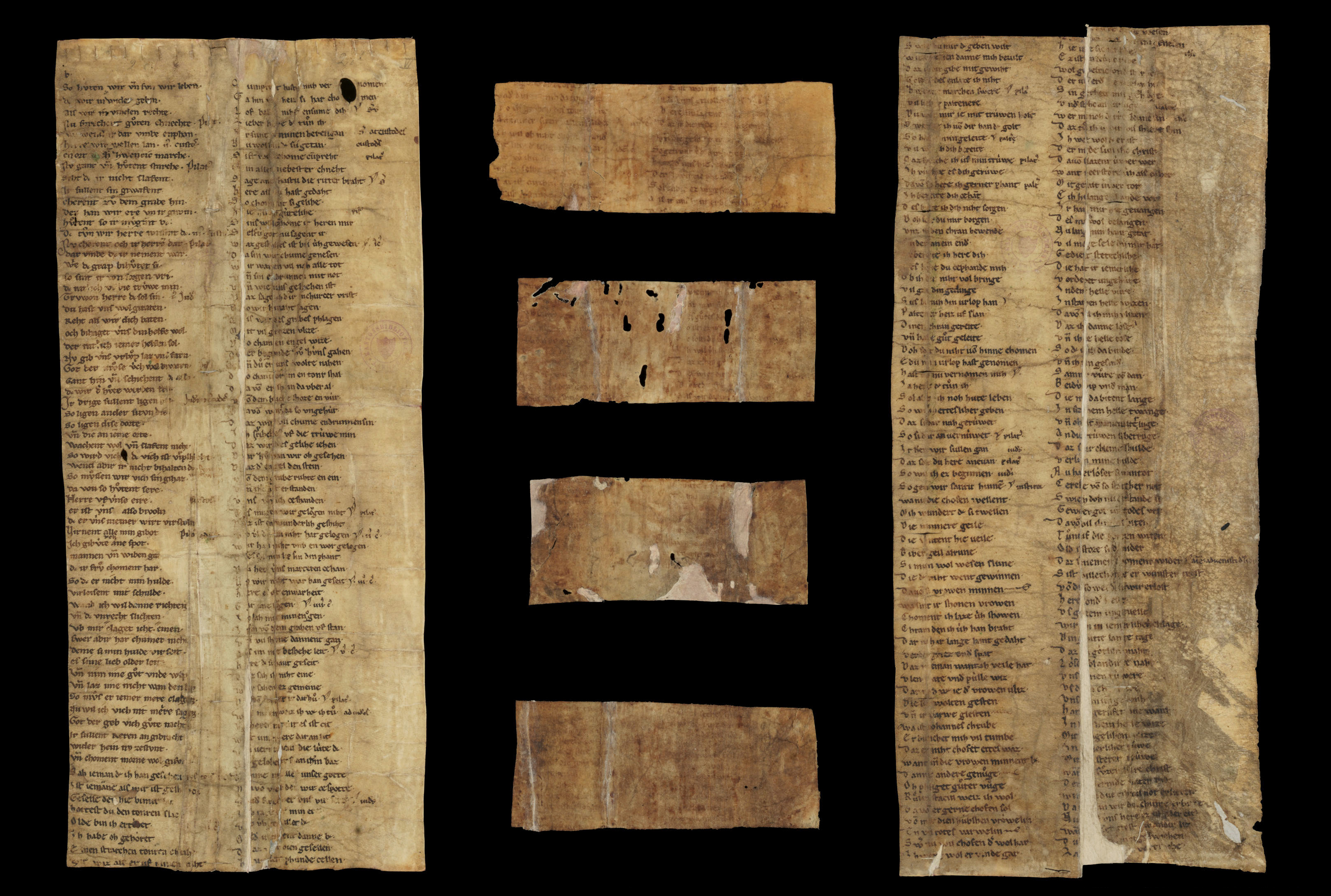 Osterspiel von Muri